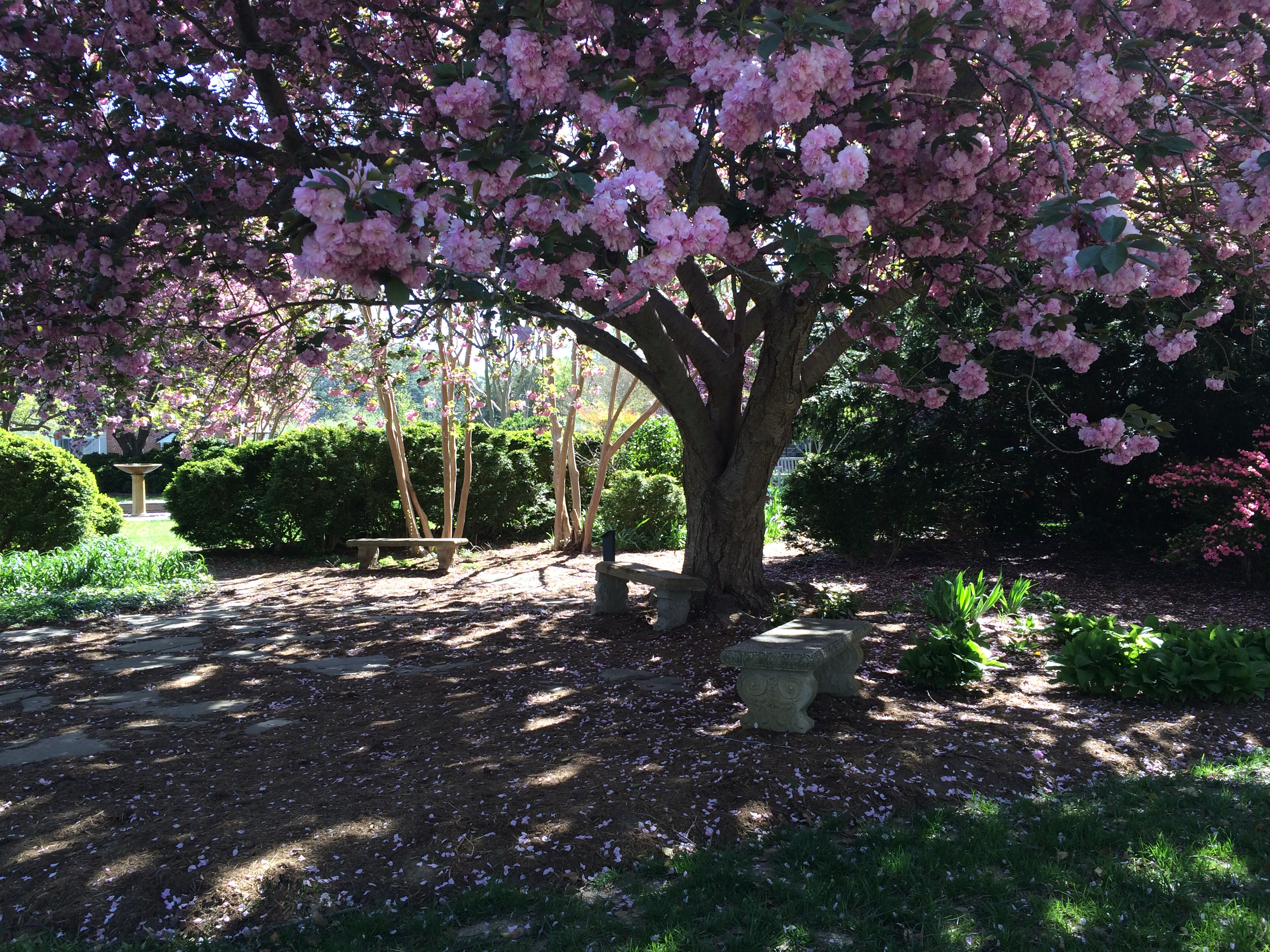 Photo taken near the Fountain of Remembrance on ST Mary's College of Maryland college campus.